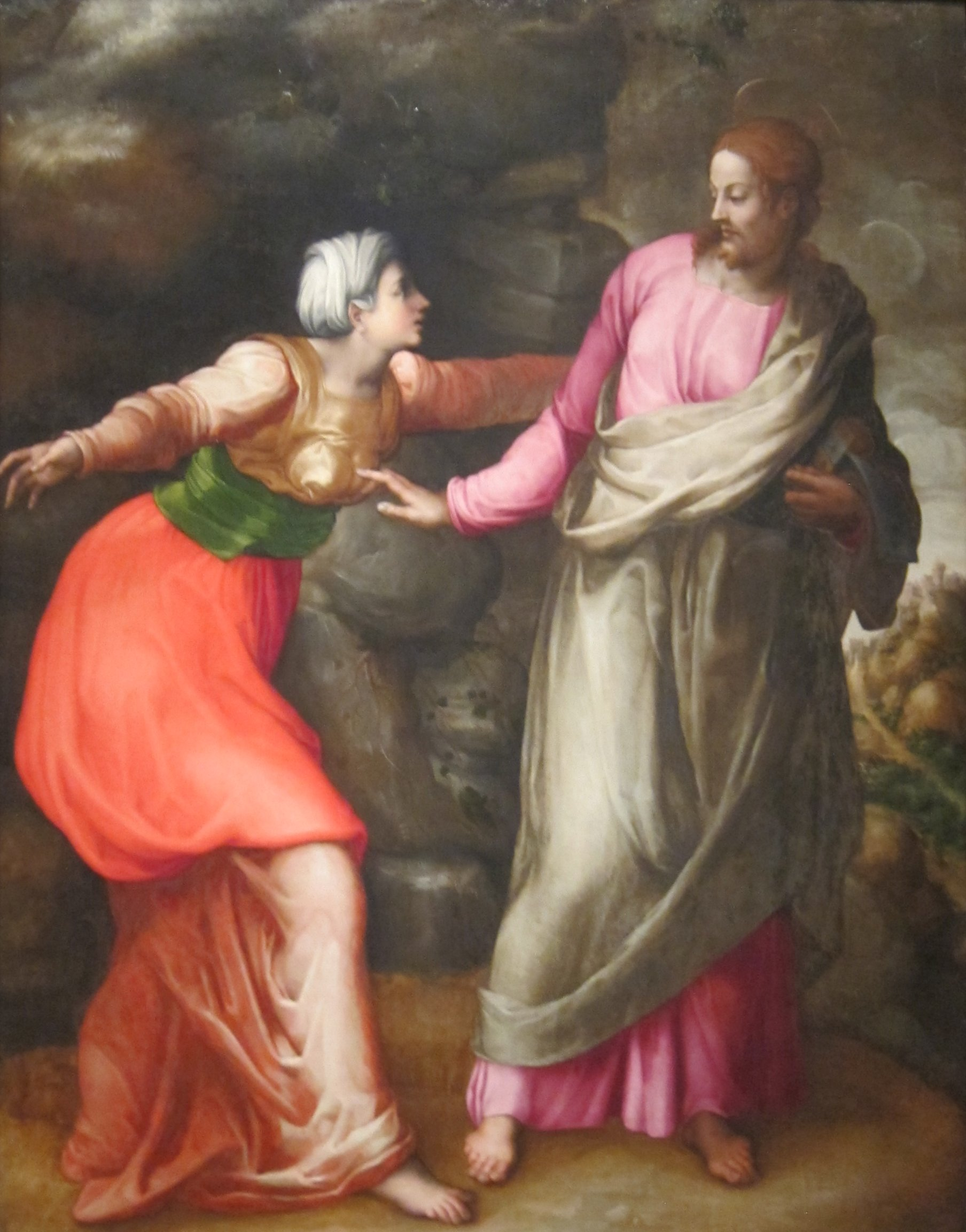 Noli me tangere or Christ Appearing to Mary Magdalen